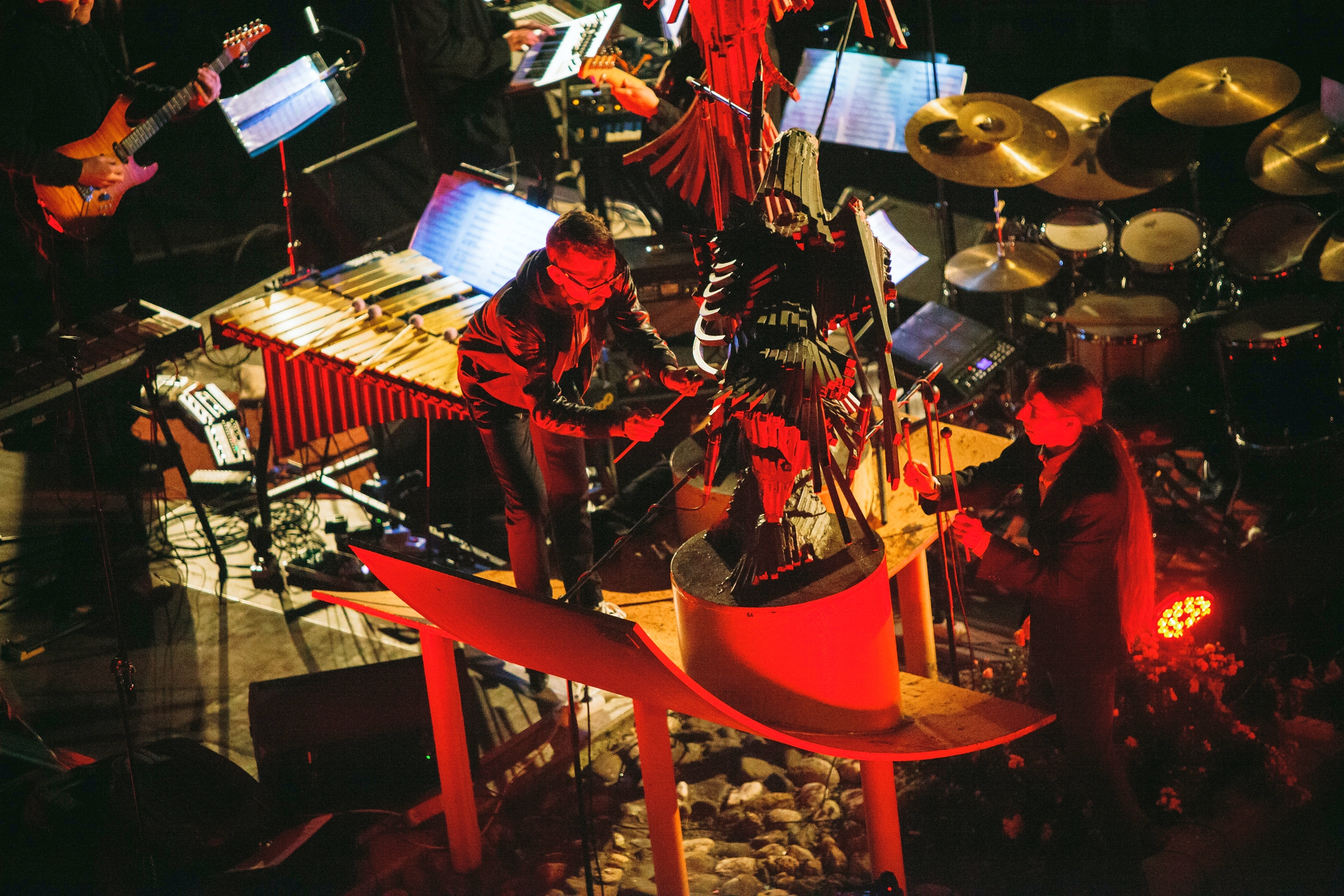 Ravne na Koroškem Viva Jazz Forma